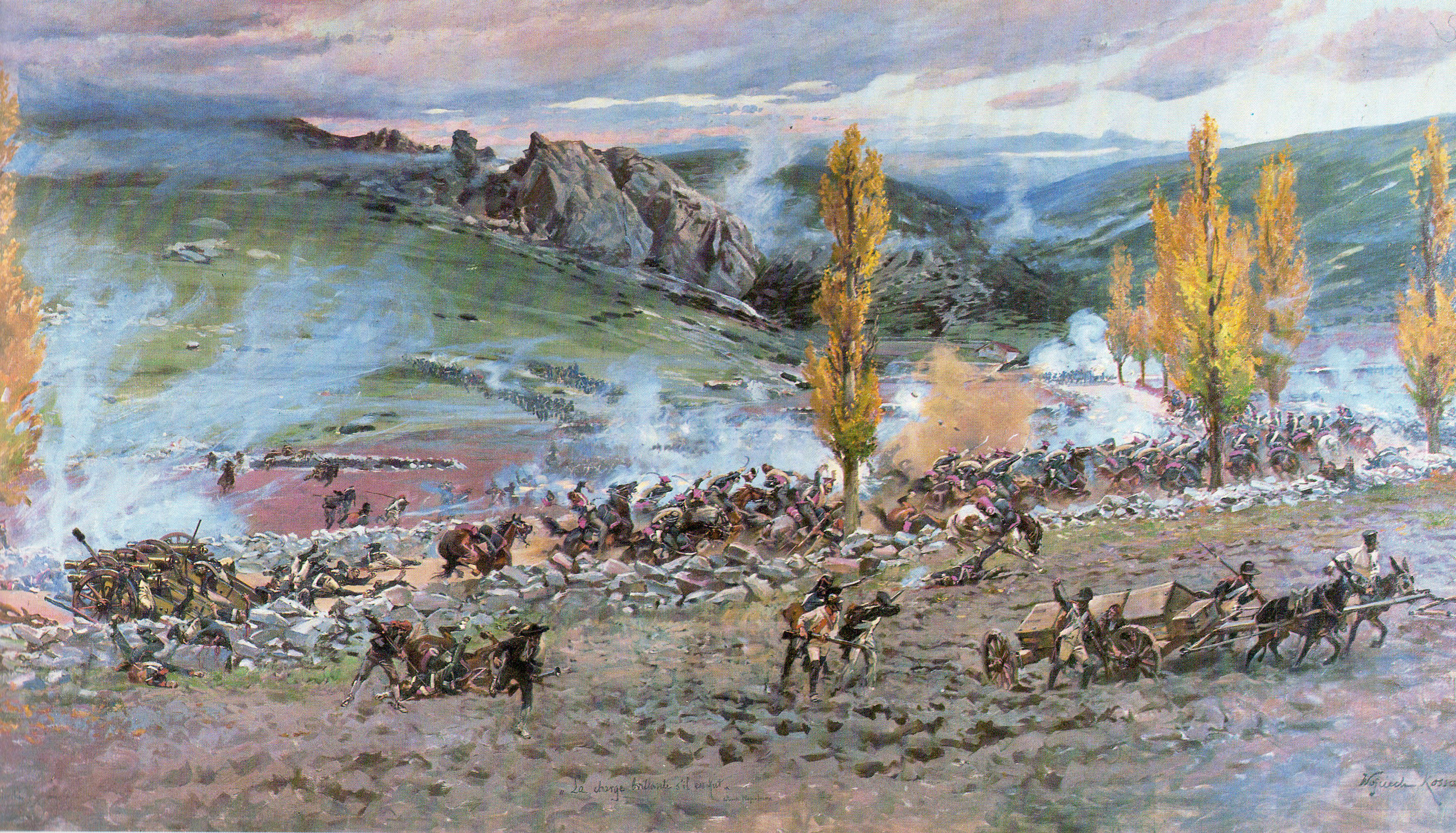 sketch a panorama painted together with Michael Wywiórskim.